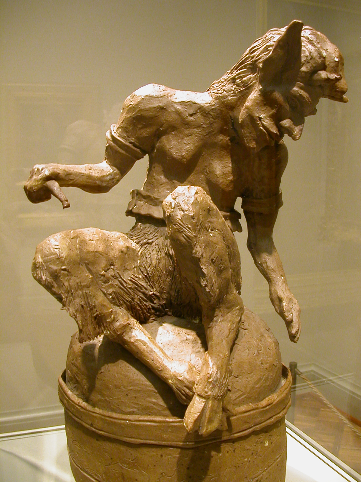 This is a picture of a sculpture of faun formerly displayed by the Art Institute of Chicago and attributed to Paul Gauguin. It was recently revealed that this sculpture was forged by Shaun Greenhalgh.